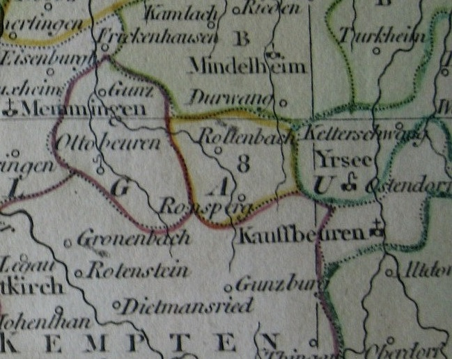 Section of a map showing part of the Allgaü region (Swabia) with the territories of the Imperial abbeys of Ottobeuren and Irsee and the Imperial cities of Memmingen and Kaufbeuren. Part of the Princely abbey of Kempten and the Bavarian exclave of Mindelheim are also visible. Cropped from an 1802 map of the Swabian Circle by British map publisher Robert Wilkinson.